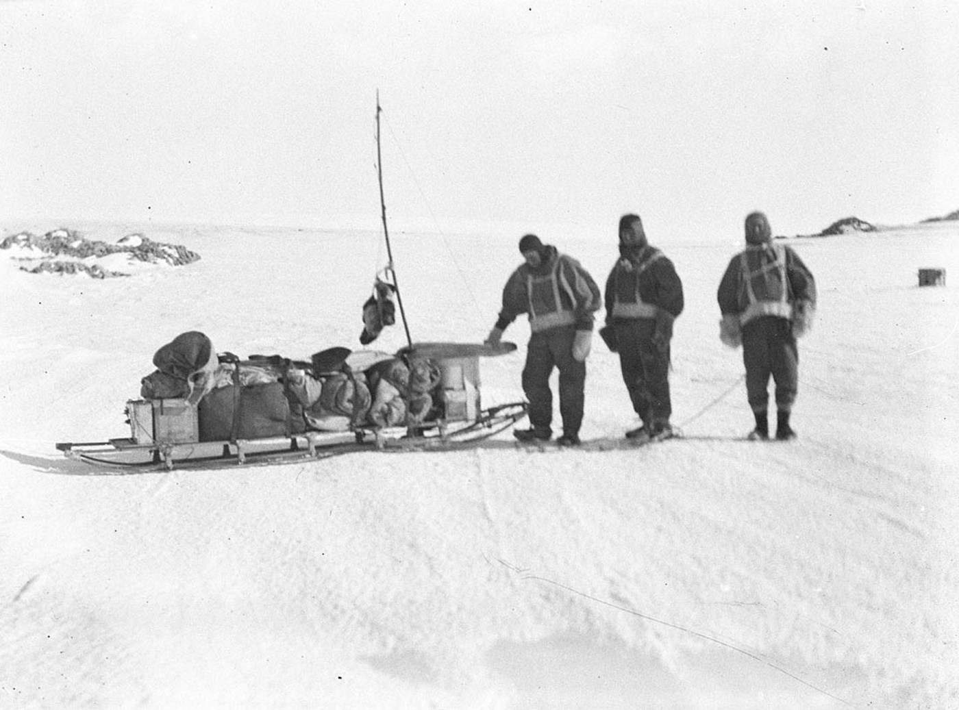 Photograph of Frank Stillwell, Alfred Hodgeman and John Close during the Australasian Antarctic Expedition, 1911-1914.